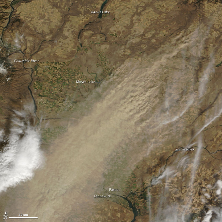 Visibility dropped to zero in parts of eastern Washington on October 4, 2009, as a large dust storm blew through. This image of the storm was captured by the Moderate Resolution Imaging Spectroradiometer (MODIS) on NASA’s Terra satellite